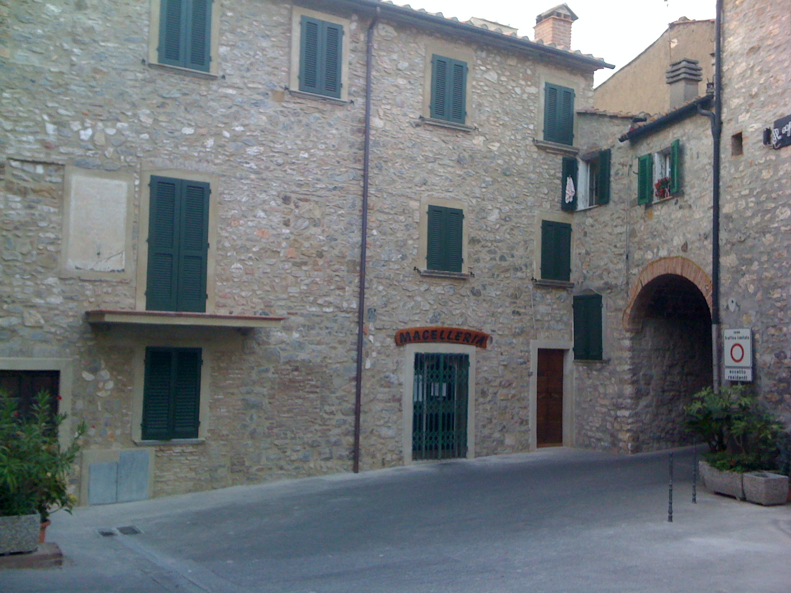 The medieval place of Sasso Pisano